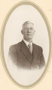 John Cusack